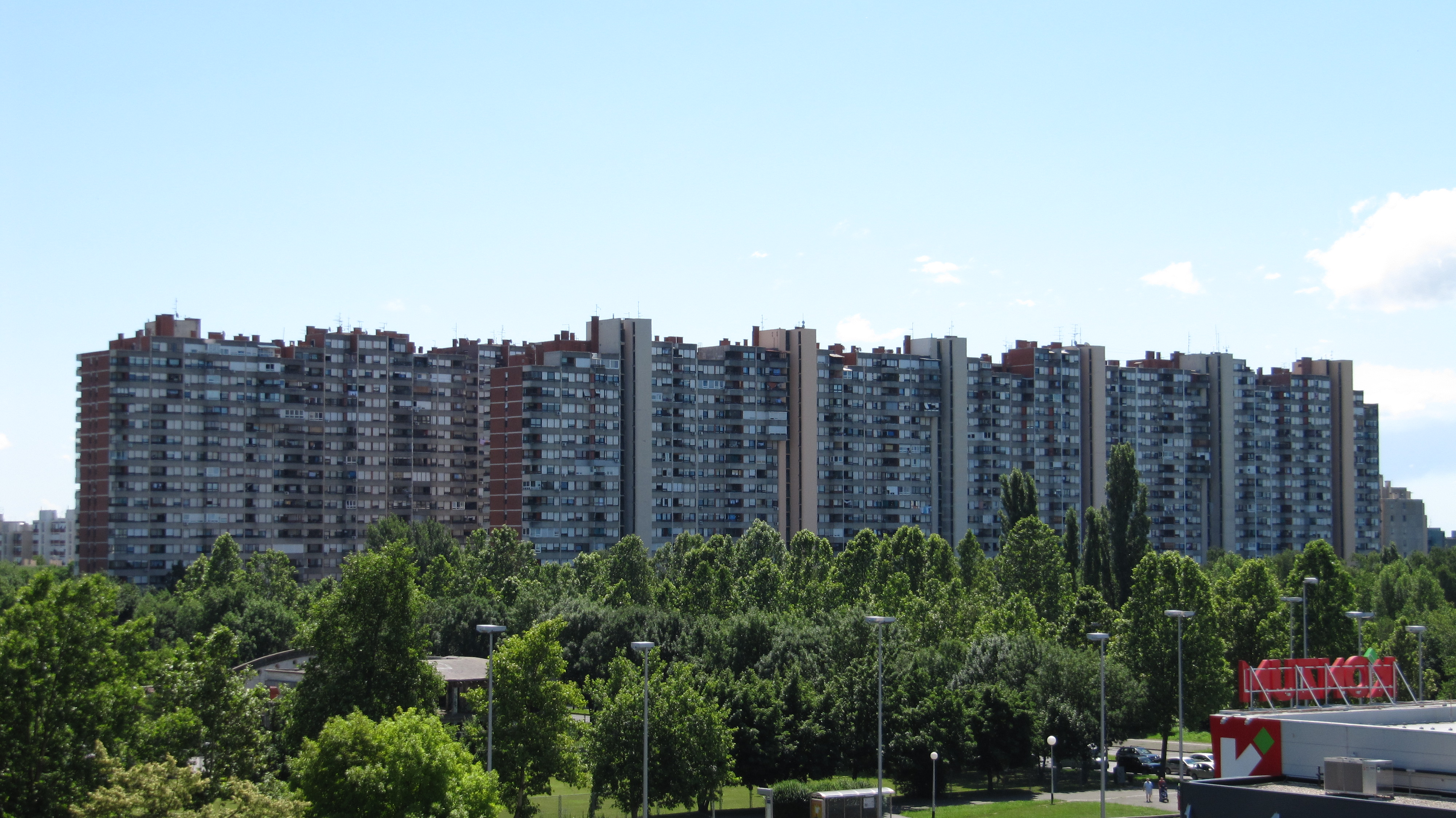 Mamutica apartment building in Zagreb, Croatia, seen from the west.